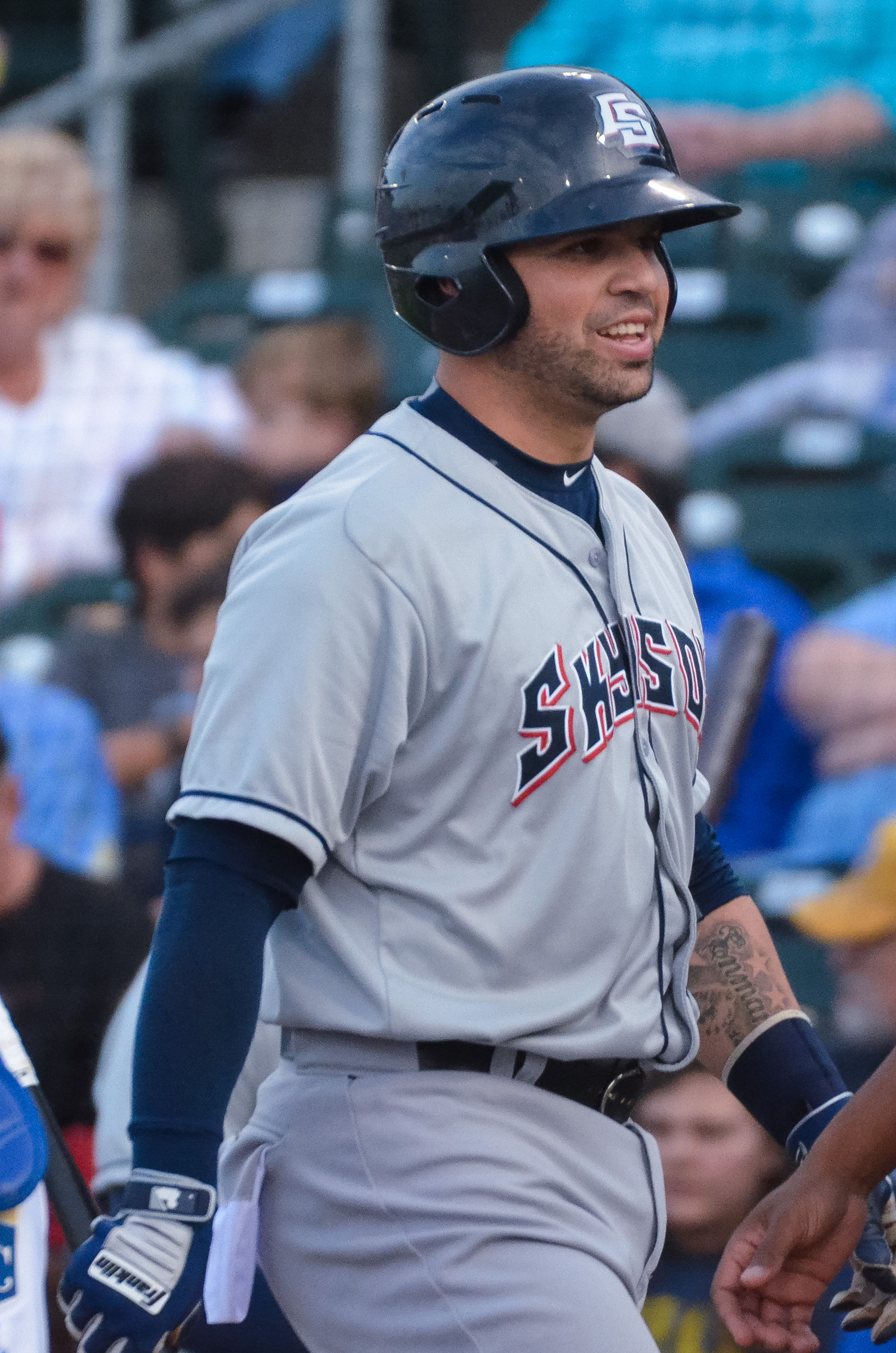 Minda Haas Kuhlmann | 2016 USAGE INSTRUCTIONS: You are welcome to share or publish to your own site or social media account, but you MUST credit me, Minda Haas Kuhlmann, or by my Twitter handle (@minda33) or Instagram (minda.haas).